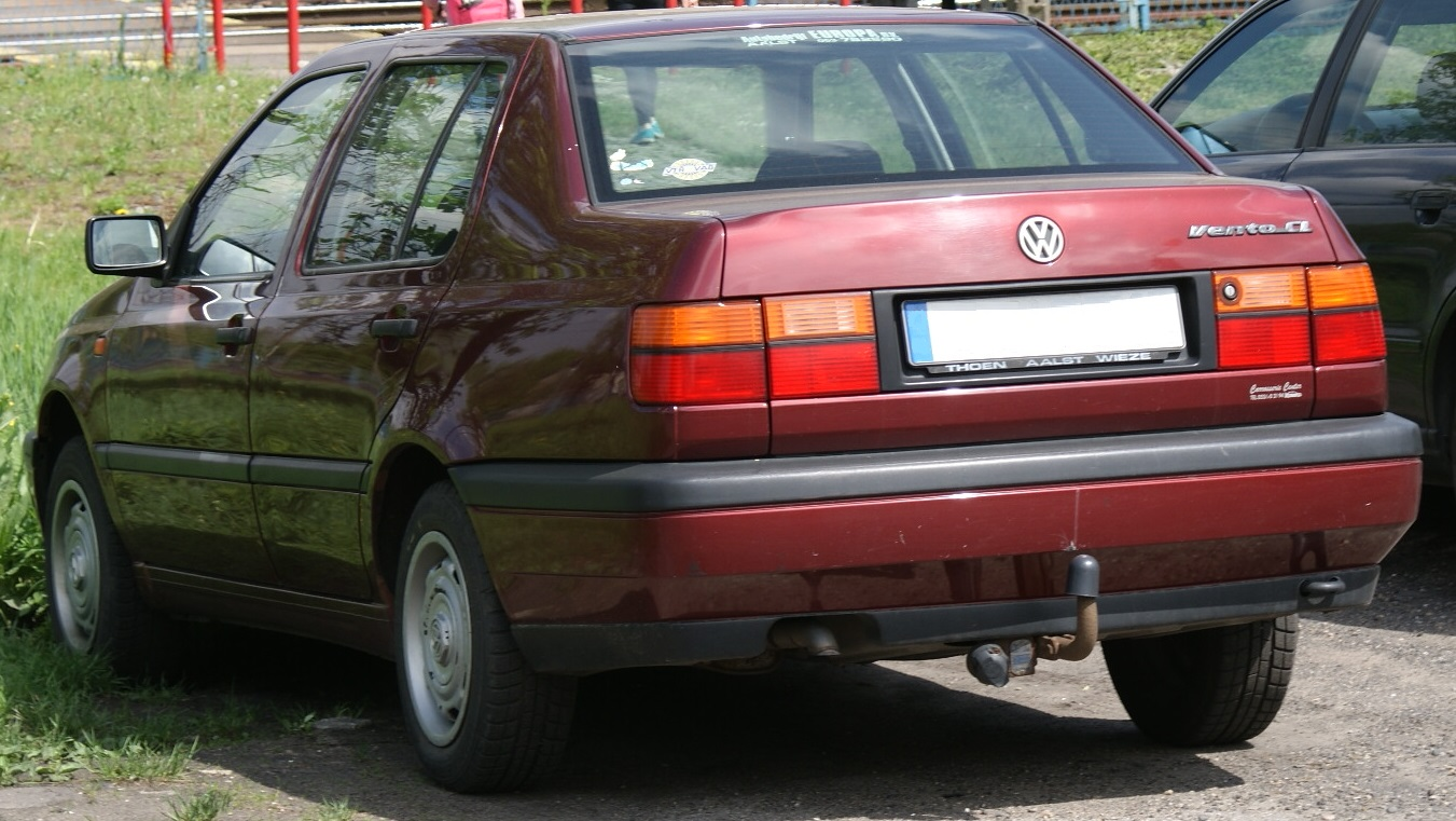 Volkswagen Vento